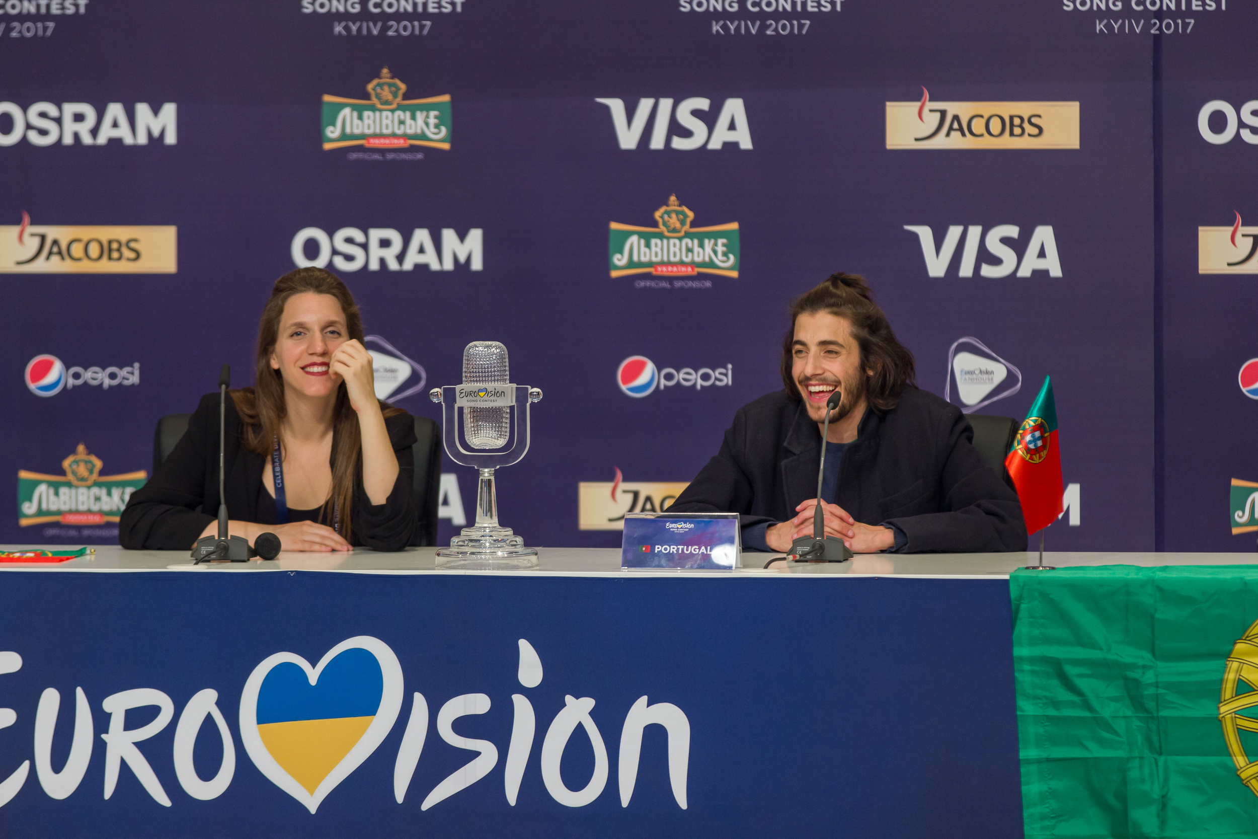 Salvador and Luísa Sobral at the Eurovision 2017 Winner's Press Conference